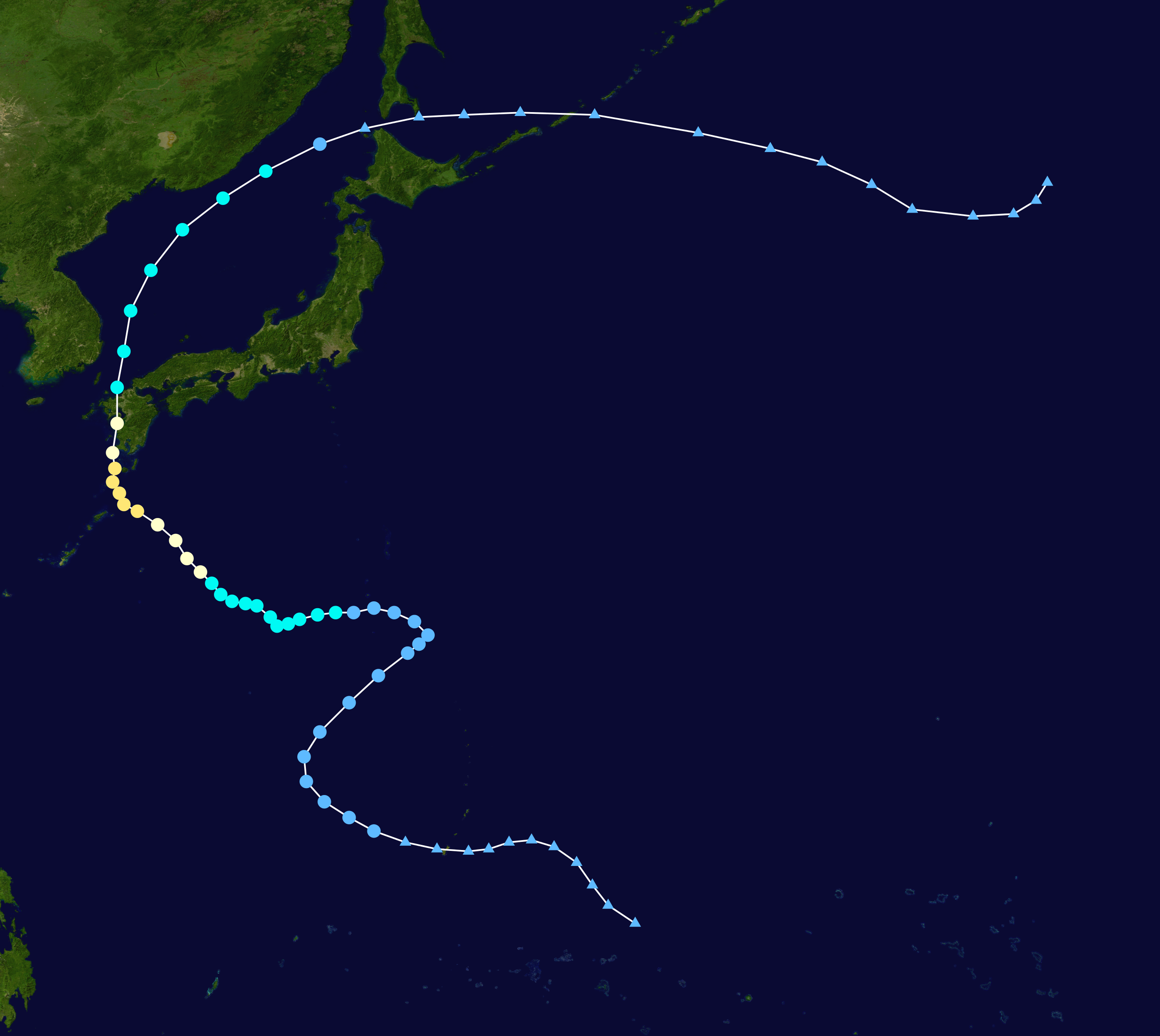 Track map of Typhoon Olive of the 1971 Pacific typhoon season. The points show the location of the storm at 6-hour intervals. The colour represents the storm's maximum sustained wind speeds as classified in the Saffir–Simpson hurricane wind scale (see below), and the shape of the data points represent the nature of the storm, according to the legend below. Saffir–Simpson hurricane wind scale Tropical depression≤38 mph≤62 km/h Category 3111–129 mph178–208 km/h Tropical storm39–73 mph63–118 km/h Category 4130–156 mph209–251 km/h Category 174–95 mph119–153 km/h Category 5≥157 mph≥252 km/h Category 296–110 mph154–177 km/h Unknown Storm typeTropical cycloneSubtropical cycloneExtratropical cyclone / Remnant low / Tropical disturbance